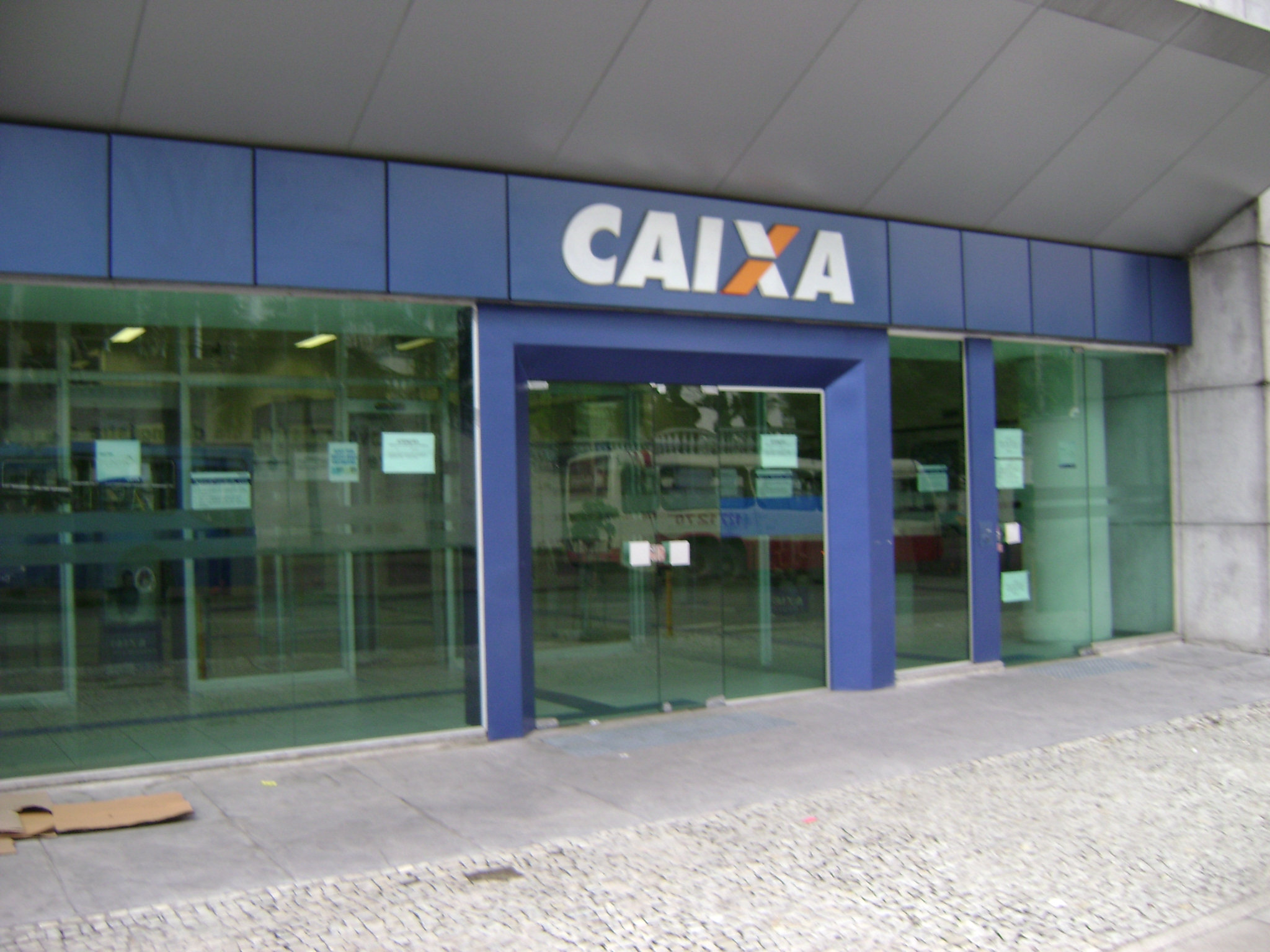 Agência da Caixa, em Belo Horizonte.